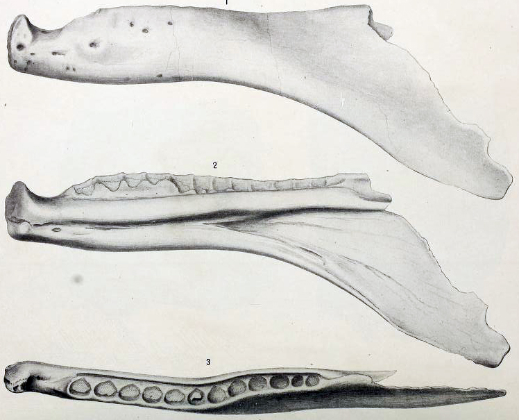 The pathological dentary of a Allosaurus fragilis specimen, the holotype of Labrosaurus ferox.